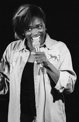 British comedienne Andi Osho at Not Safe For Work Presented by Comedy Central Produced by CleftClips Photography by Mandee Johnson / The Del Monte Speakeasy at Townhouse Venice - Los Angeles, CA May 7, 2013